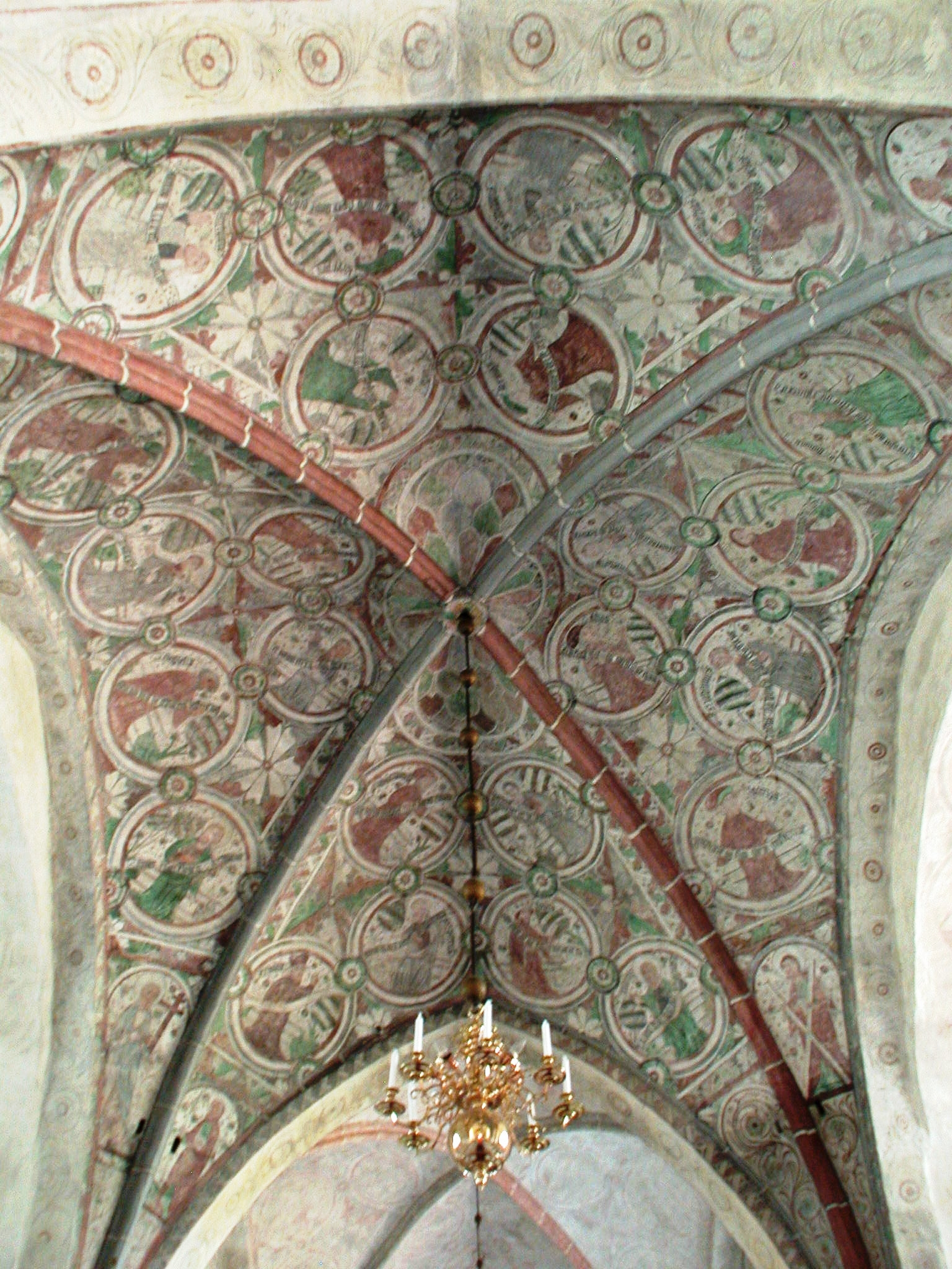 Örberga church, Vadstena, Sweden. Photo by Riggwelter, July 20, 2006.